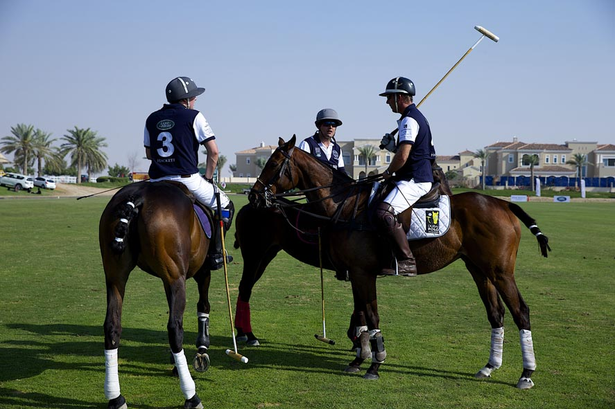 Friday 28 March 2014 sees British Polo Day and the Habtoor family welcome an anticipated 500 VIP guests to the Dubai Polo & Equestrian Club. A firm fixture on the social calendar, British Polo Day Dubai falls on the first day of the region’s biggest equine weekend - the day before the Dubai World Cup Races, the season finale to a packed polo calendar.